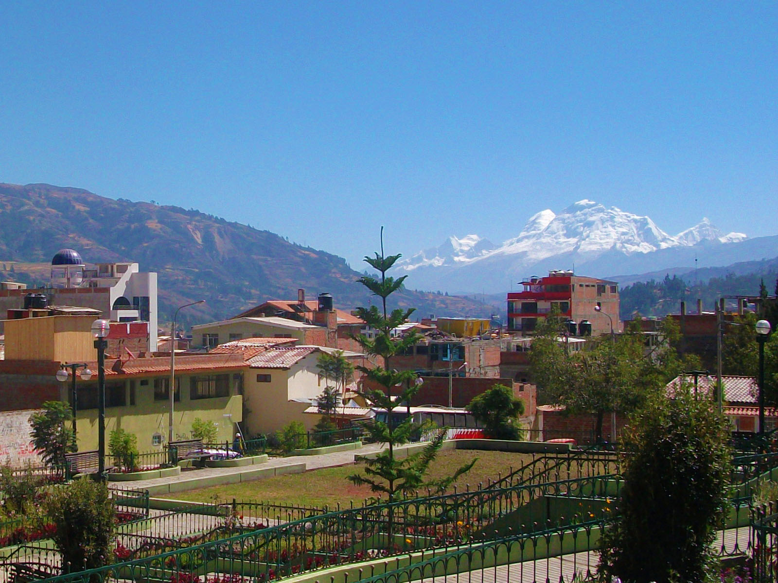 Huascaran mountain view from Soledad baja